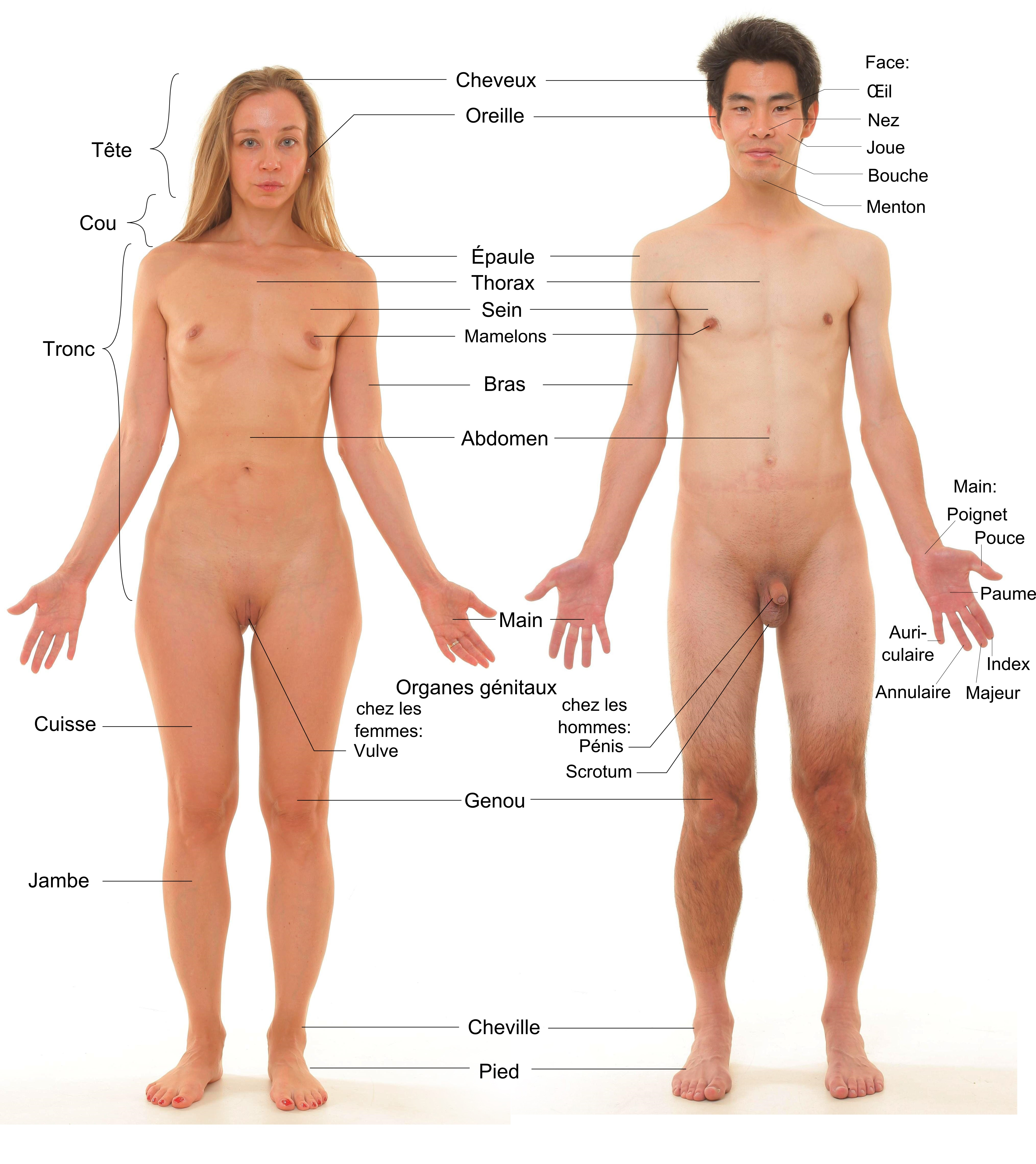 Naked female and male human body with labels.